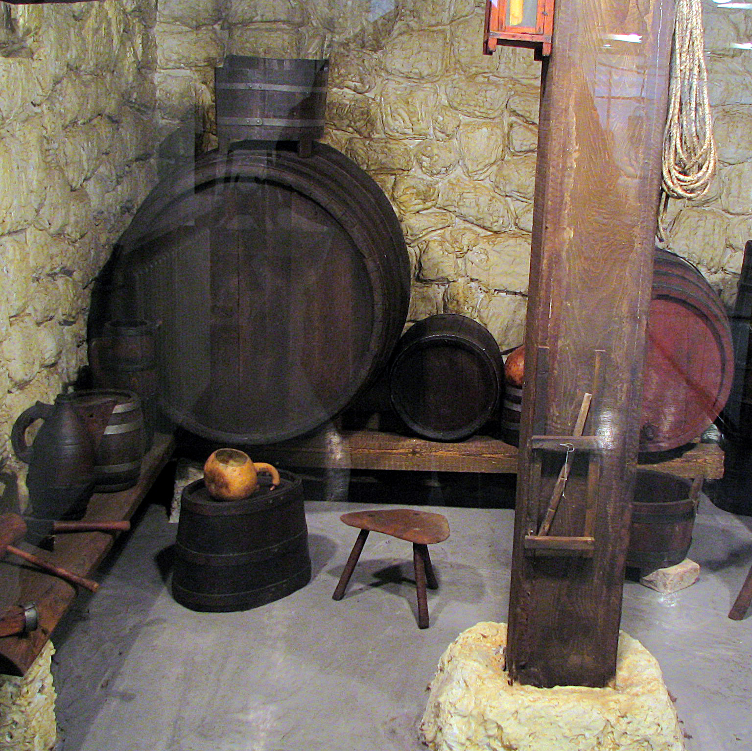 Basement, Ethnographic Museum, Belgrade